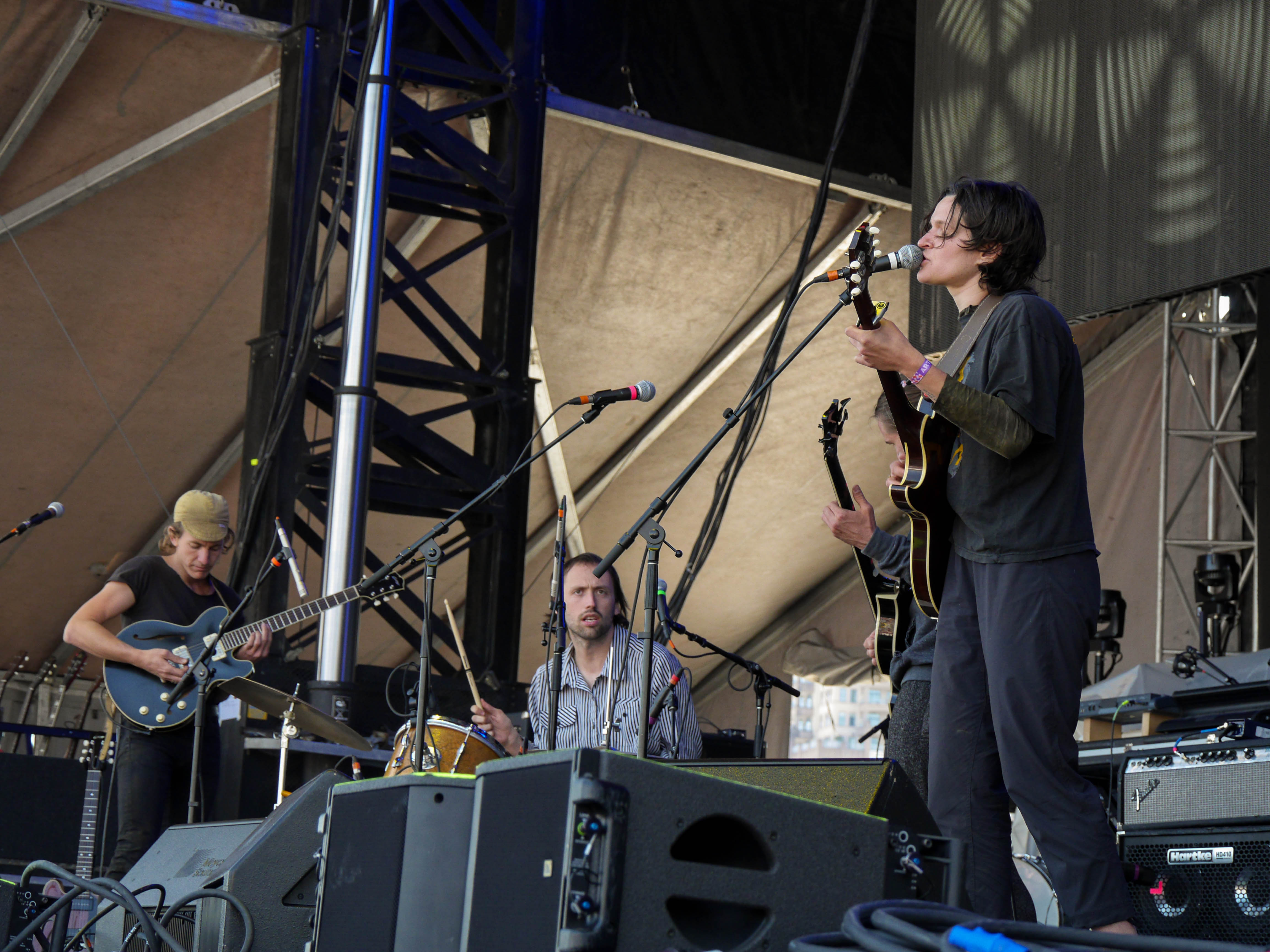 Big Thief performing at The National's Homecoming festival in Cincinnati, Ohio - April 29, 2018